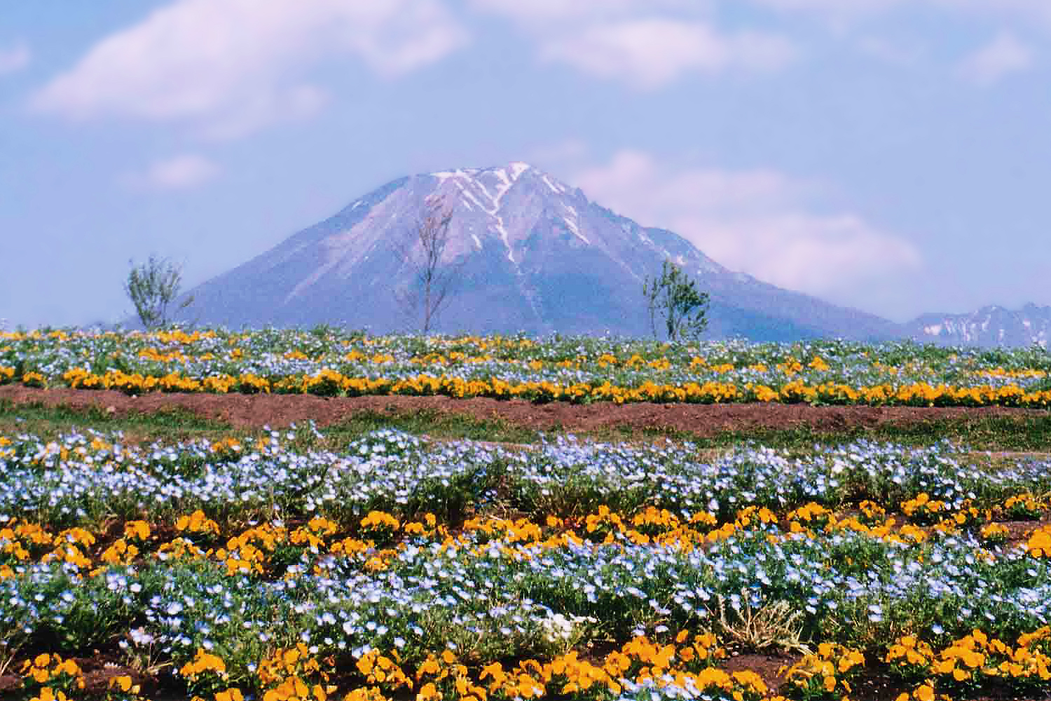 Mt.Daisen, view from Tottori Hanakairo-Flower Park, Nanbu, Tottori prefecture, Japan